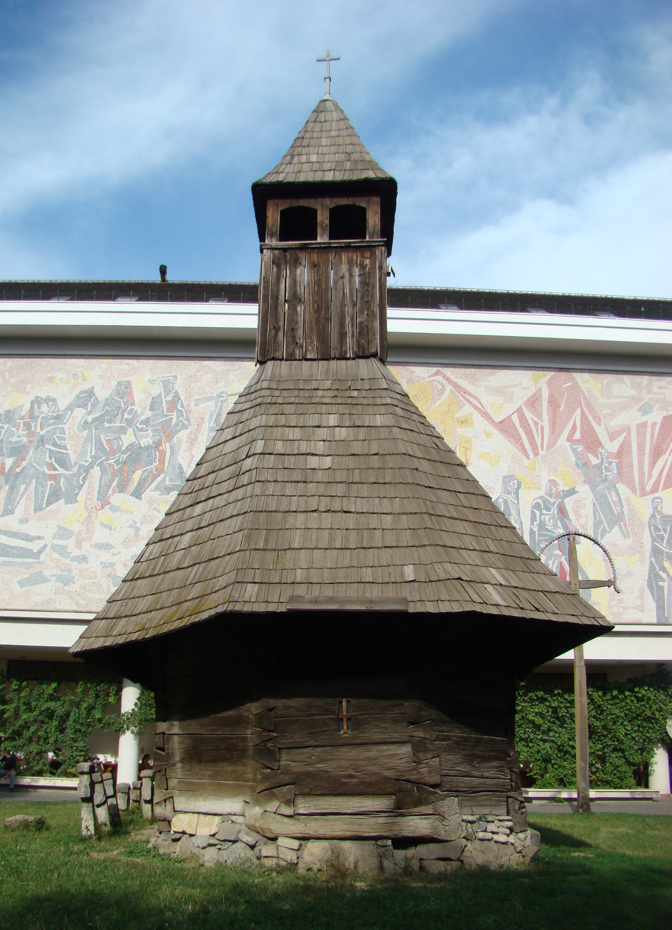 Wooden church in Bejan, Hunedoara county, transfered in Bucharest in 1992